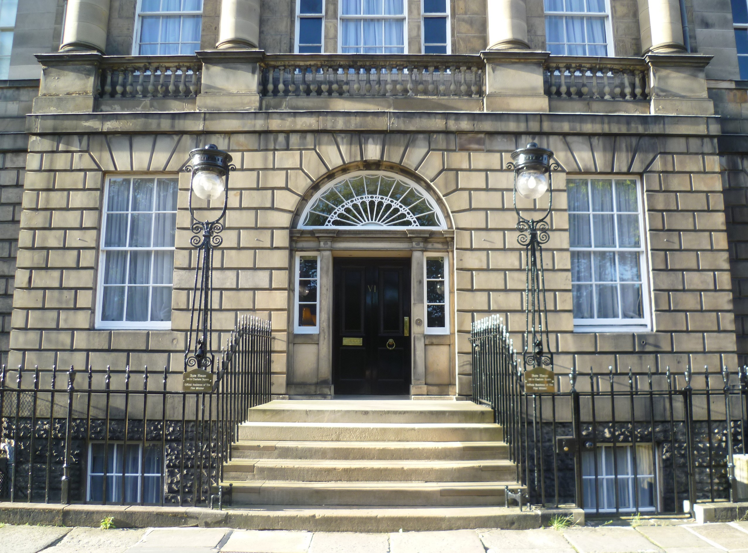 The official residence of the First Minister of Scotland